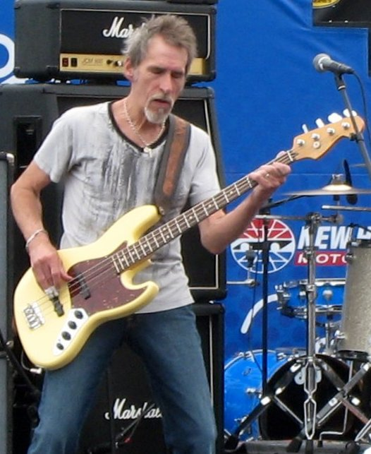 Foghat performs at the pre-race show before the Lenox Industrial Tools 301 at New Hampshire Motor Speedway in 2010.